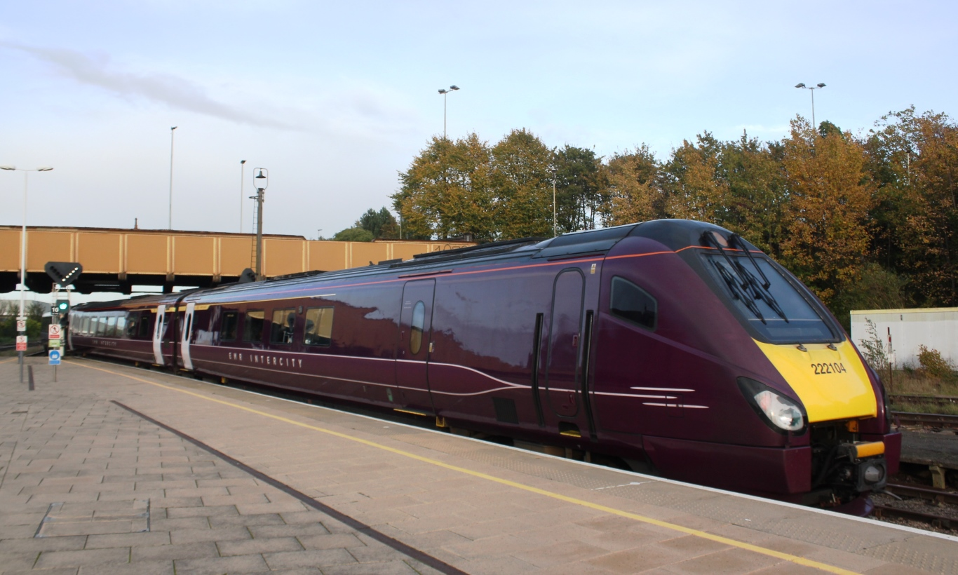 East Midlands Railway InterCity unit 222104 leaves Leicester on an EMR Regional service to Lincoln.